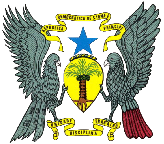 Coat of arms of São Tomé & Príncipe, a sovereign African nation.